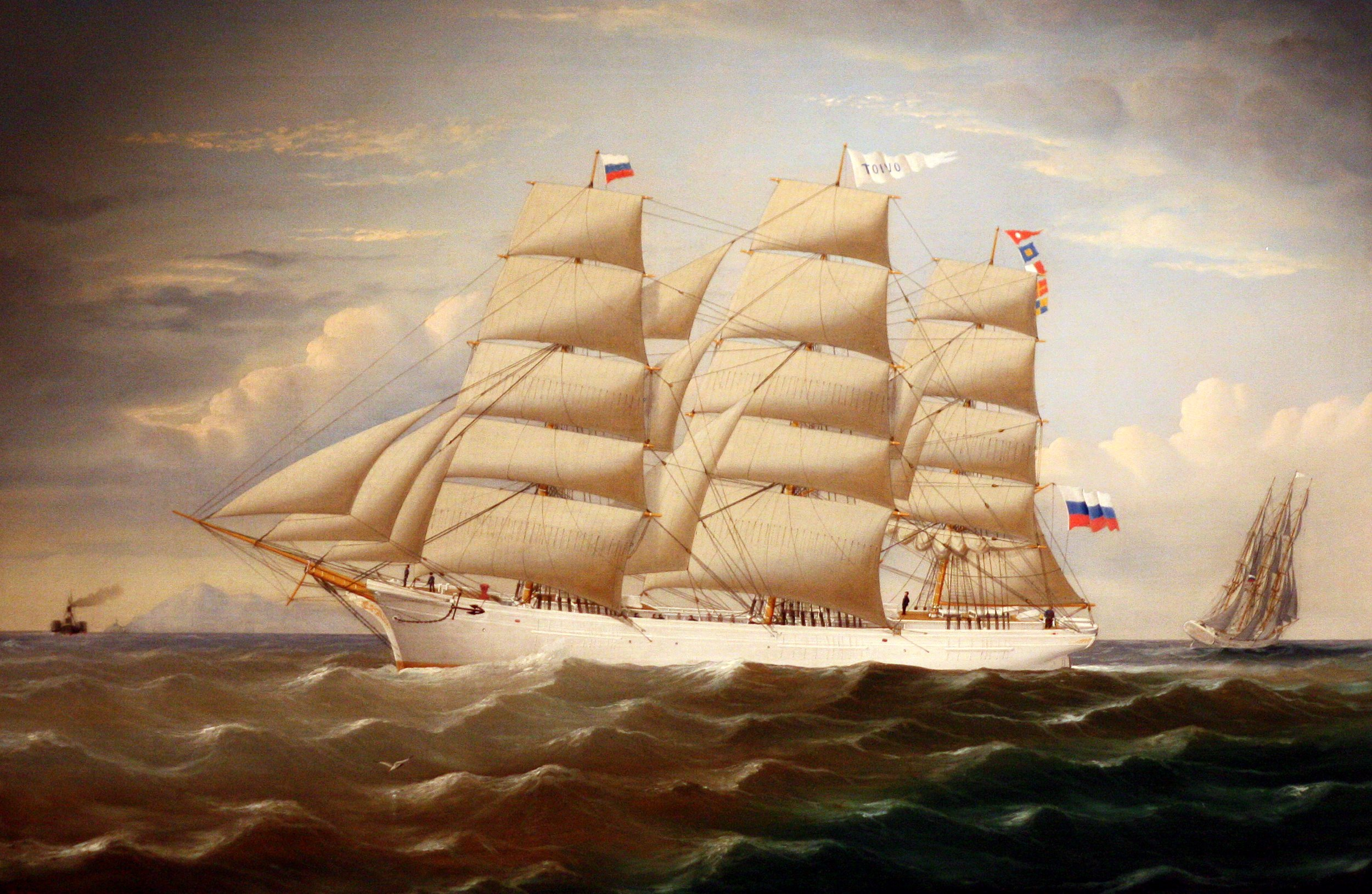 Painting of a sailing frigate Toivo by W.H. Yorke. The ship was designed by Assistant Naval Constructor William H. Varney.